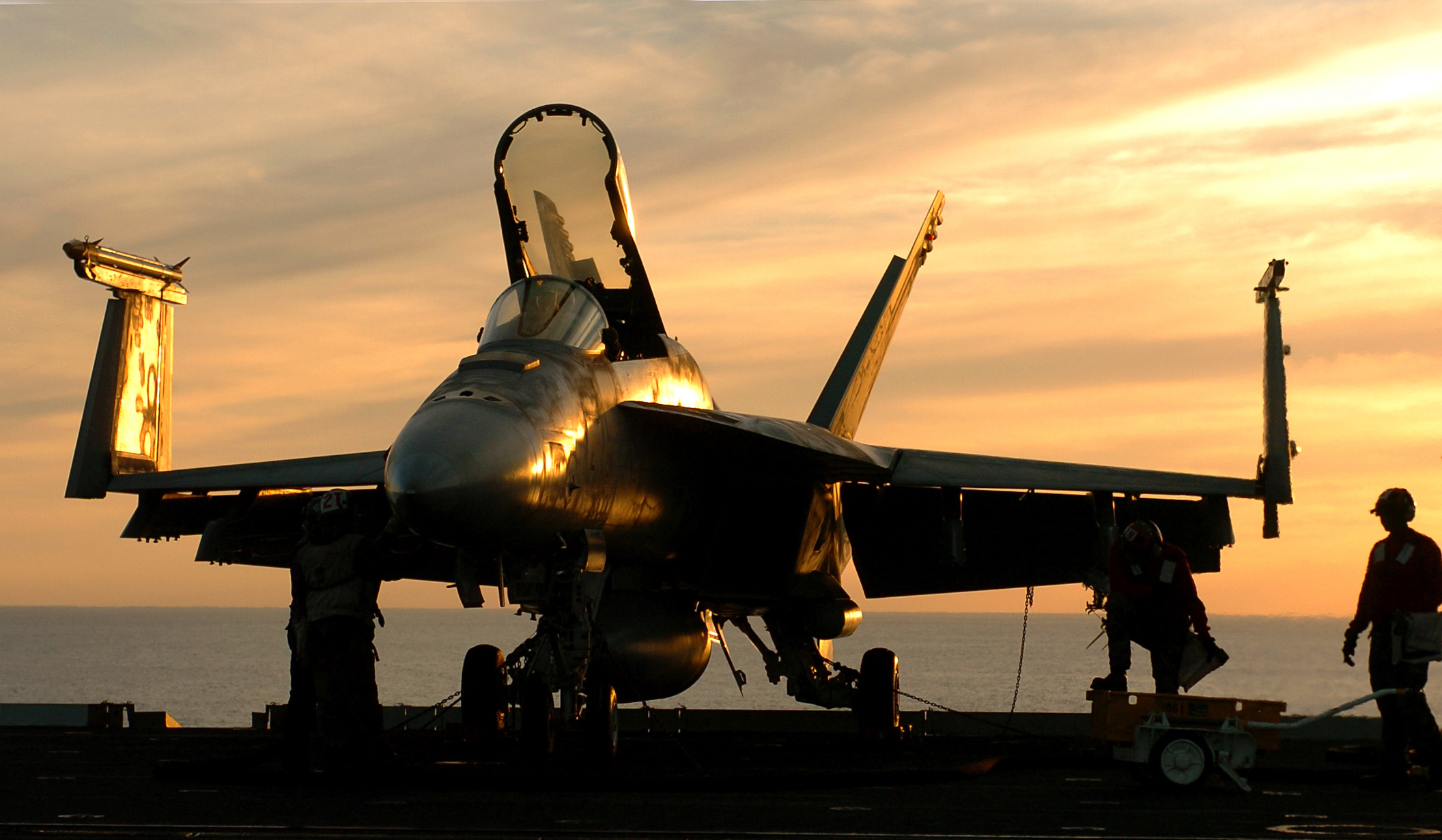 Pacific Ocean (Dec. 12, 2005) - Aircraft maintainers assigned to the "Eagles” of Strike Fighter Squadron One One Five (VFA-115), prepare an F/A-18E Super Hornet for the next event as cyclic flight operations are conducted from the flight deck of the Nimitz-class aircraft carrier USS Ronald Reagan (CVN 76). Reagan and embarked Carrier Air Wing Fourteen (CVW-14) are currently underway in the Pacific Ocean conducting Joint Task Force Exercise (JTFEX). U.S. Navy photo by Photographer's Mate 3rd Class Aaron Burden (RELEASED)